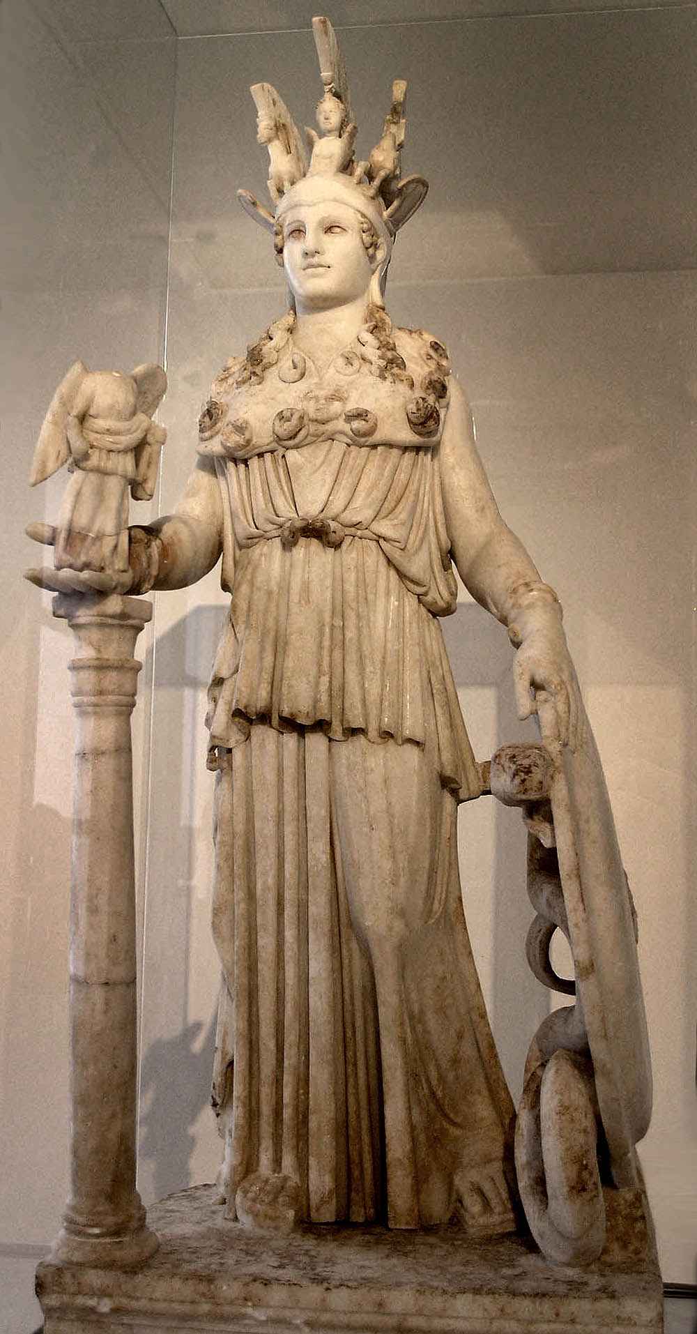 Athena Varvakeion, small Roman replica of the Athena Parthenos by Phidias. Found in Athens near the Varvakeion school, hence the name. First half of the 3rd c. AD.